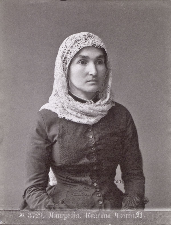 Mingrelian princess Chkonia